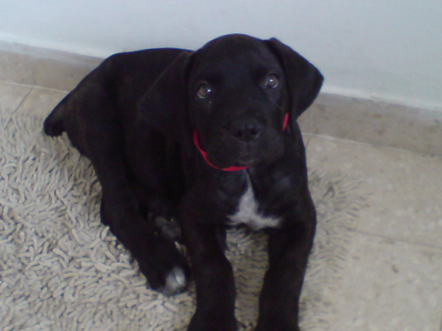 Cane corso puppy 10 weeks old